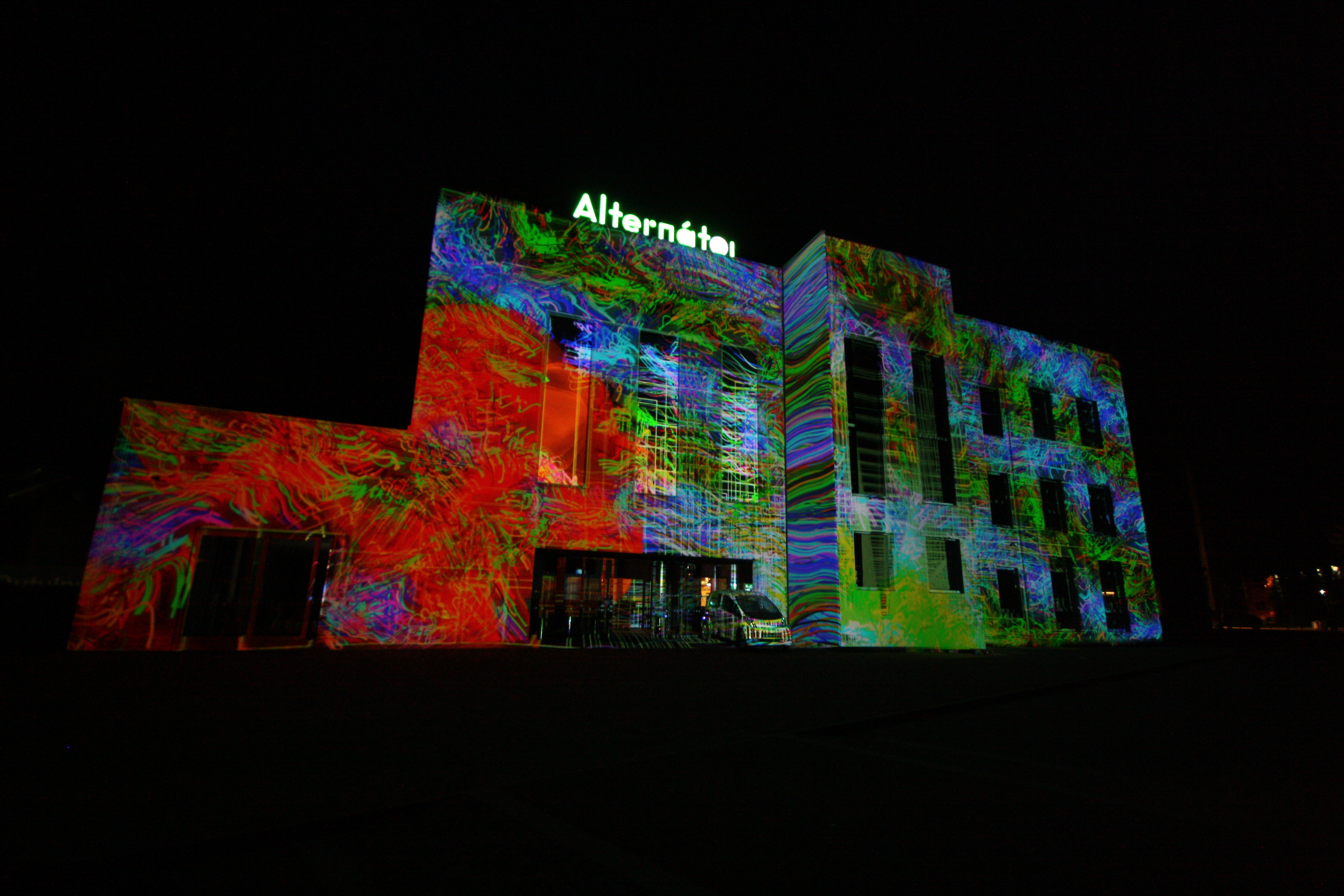 Opening Videomapping of Science center Alternátor in Třebíč, Třebíč District.